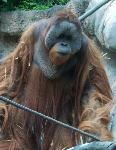 Bornean Orangutan